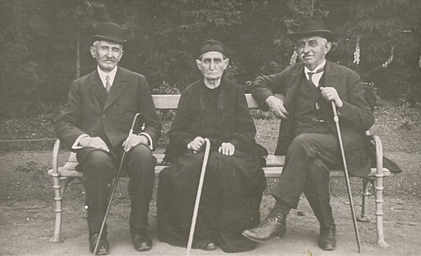 Nikola, Evtimiya and Dimitar Shavkulev